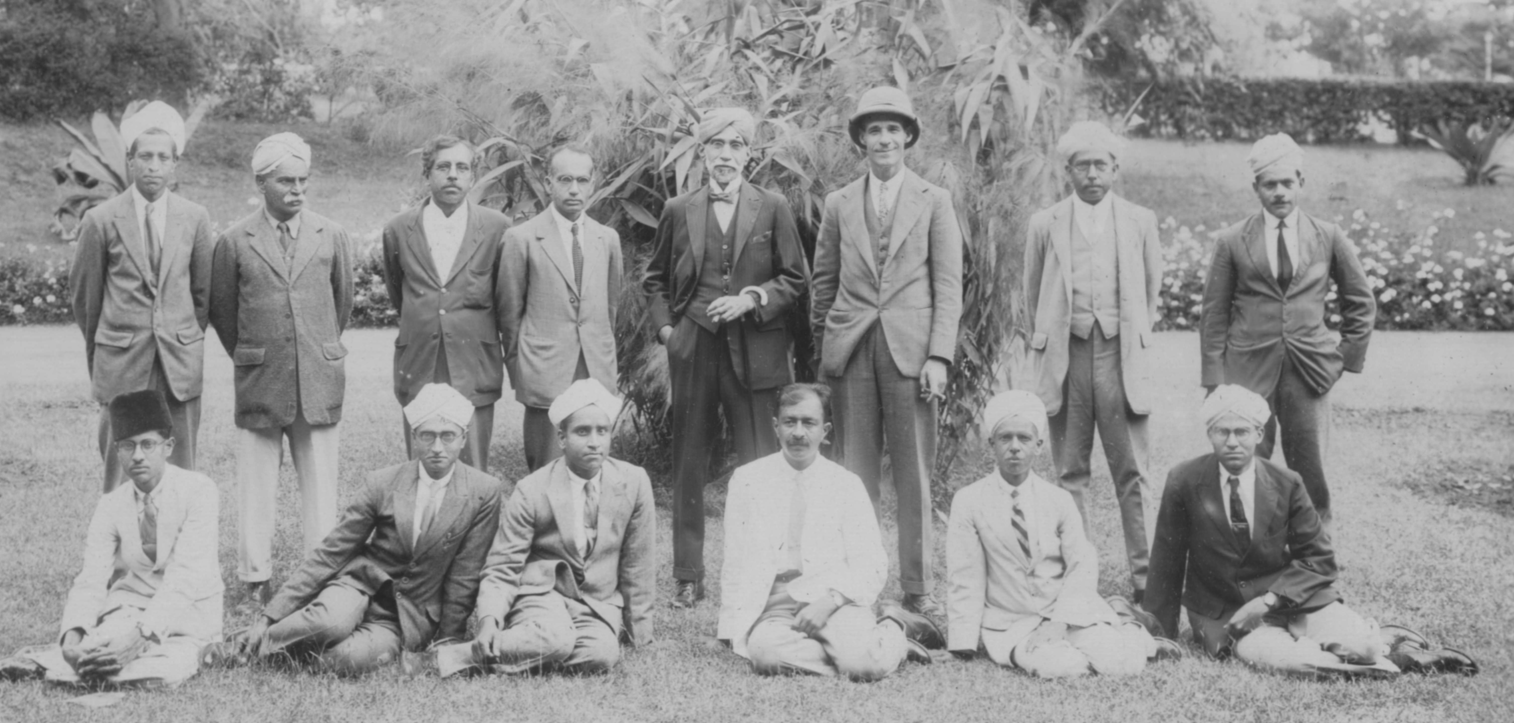 Scientists in the Mysore Agriculture Department c. 1928 - Standing L to R - 1) M.J. Narasimhan 2) Unidentified 3) K. Kunhikannan 4) Unidentified 5) "Sir H." 6) Leslie Coleman 7) H.V. Krishnayya, chemist (retired in December 1932, thereby making it likely that the photograph is older than 1932) 8) Unidentified Sitting L to R - 1) Unidentified 2) Unidentified 3) Unidentified 4) Venkatrao K. Badami 5) Unidentified 6) Unidentified